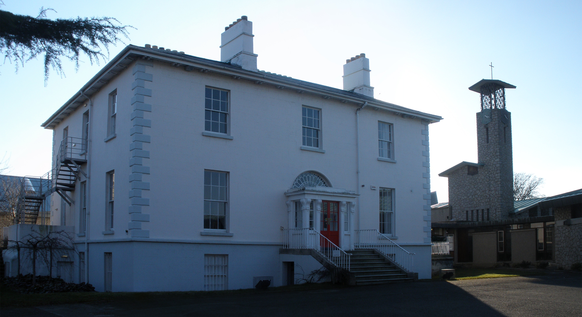 Gonzaga College, Dublin: St. Joseph's House containing classrooms and administration block, with clock tower.